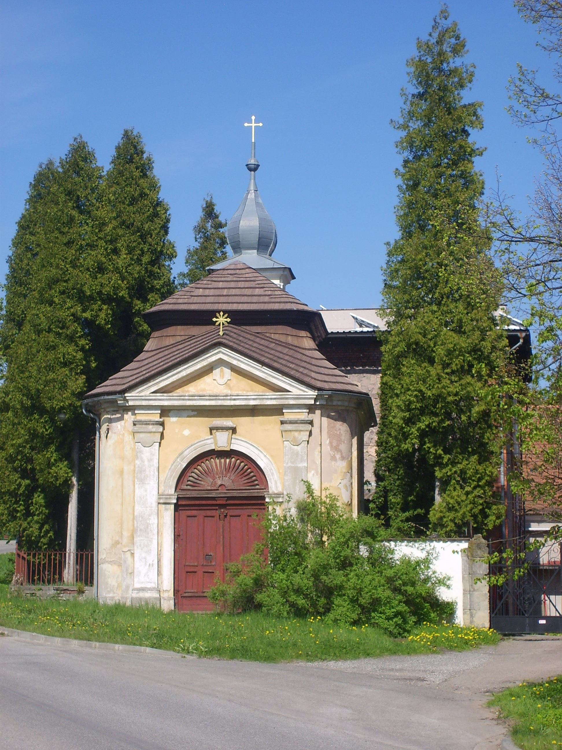 Former baroque chapel in Olivětín, a suburb of Broumov in the Czech Republic.